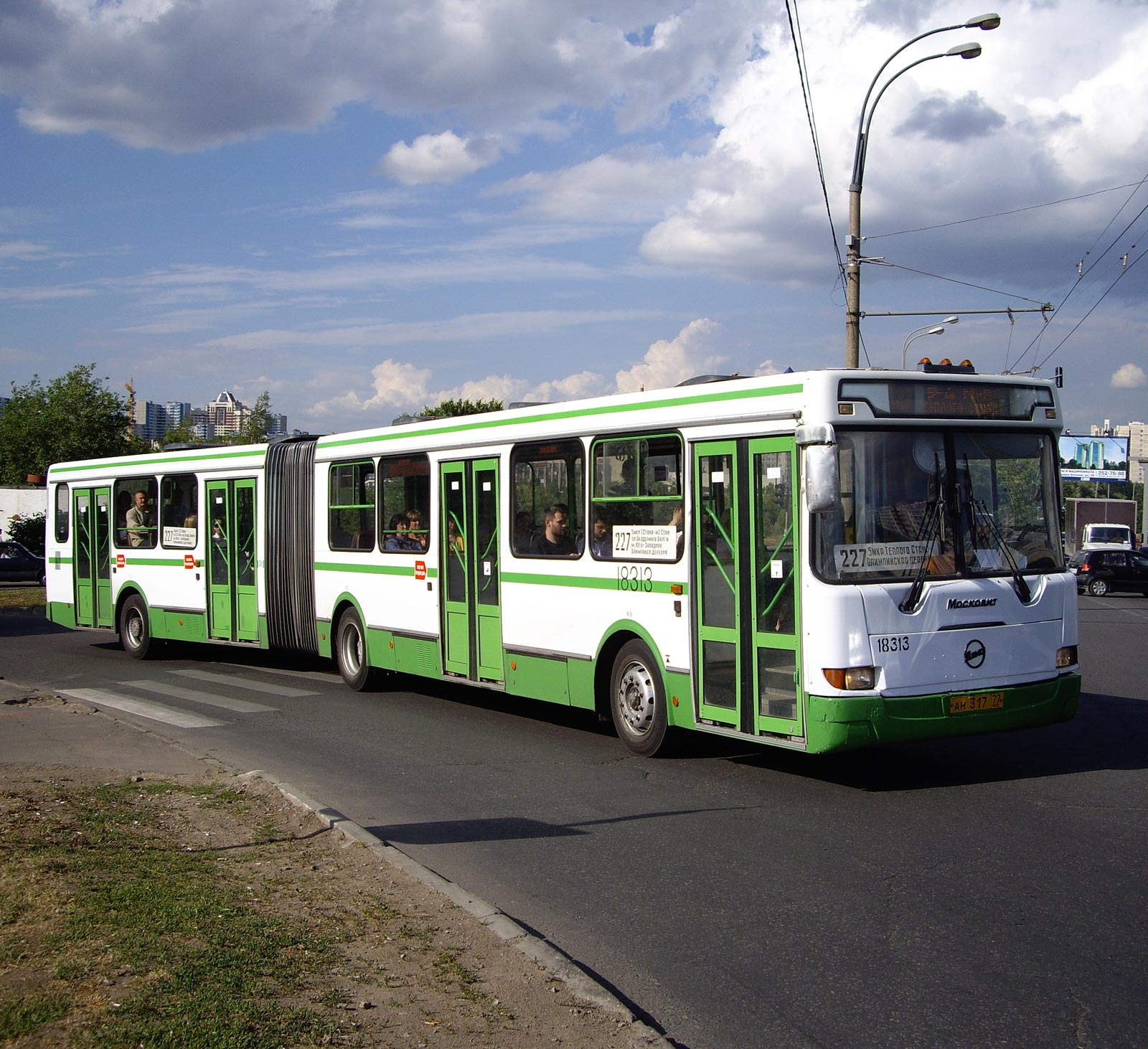 LiAZ-6212 in Moscow